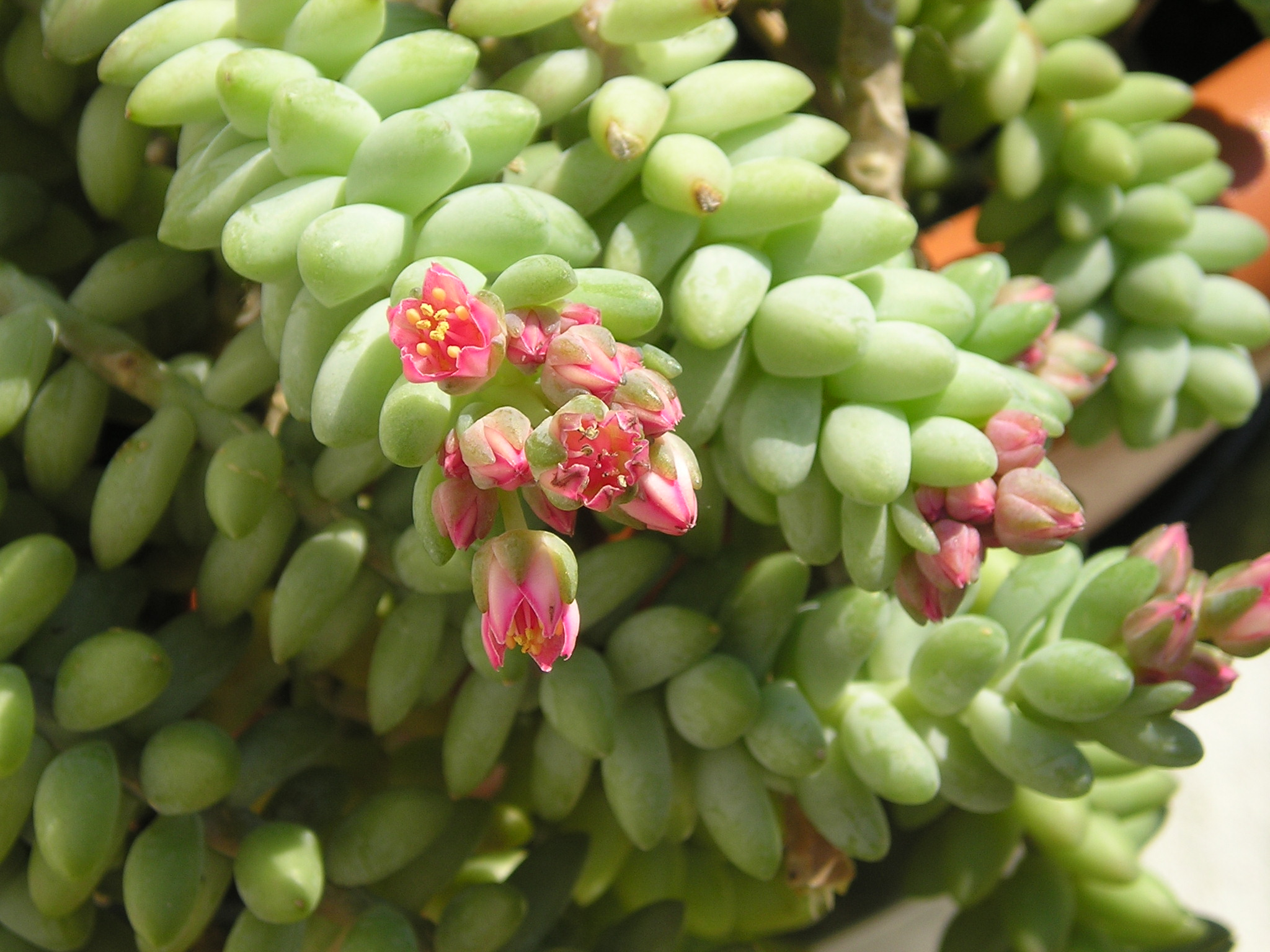 Donkey's tail, Burro's Tail, Rabo de Burro, Sedum morganianum. All these names describe this succulent. Here it is in full bloom, which may be once or twice a year, or never- depends on the climate and light conditions.